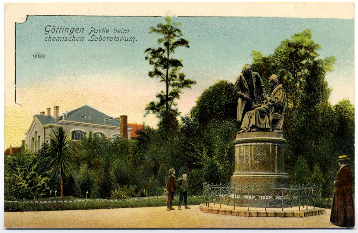 Gauß-Weber-Denkmal in Göttingen. The beautiful chemical institute was pulled down in ~1970.